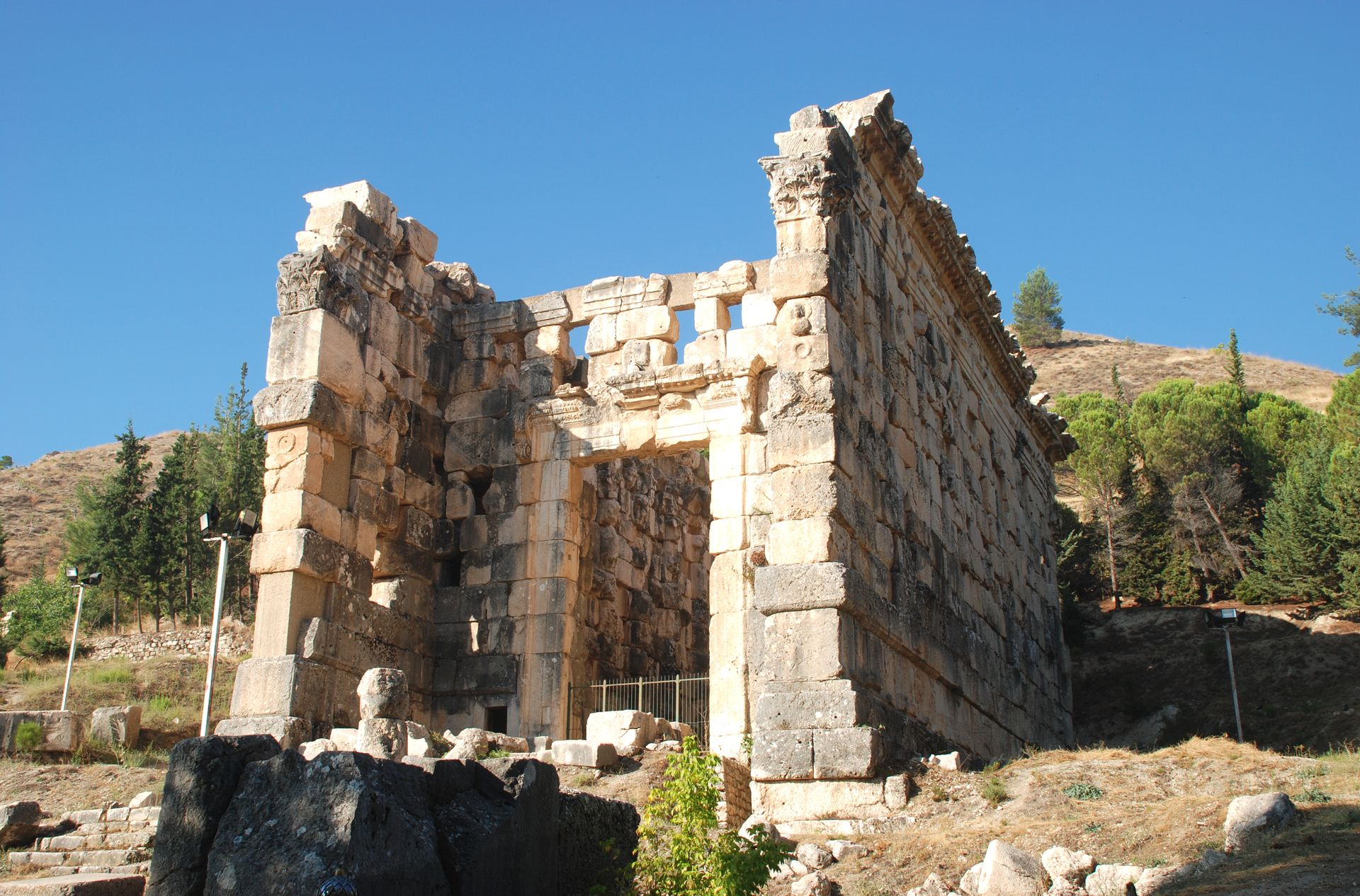 Niha (Zahlé), Lebanon. Great Roman temple from east